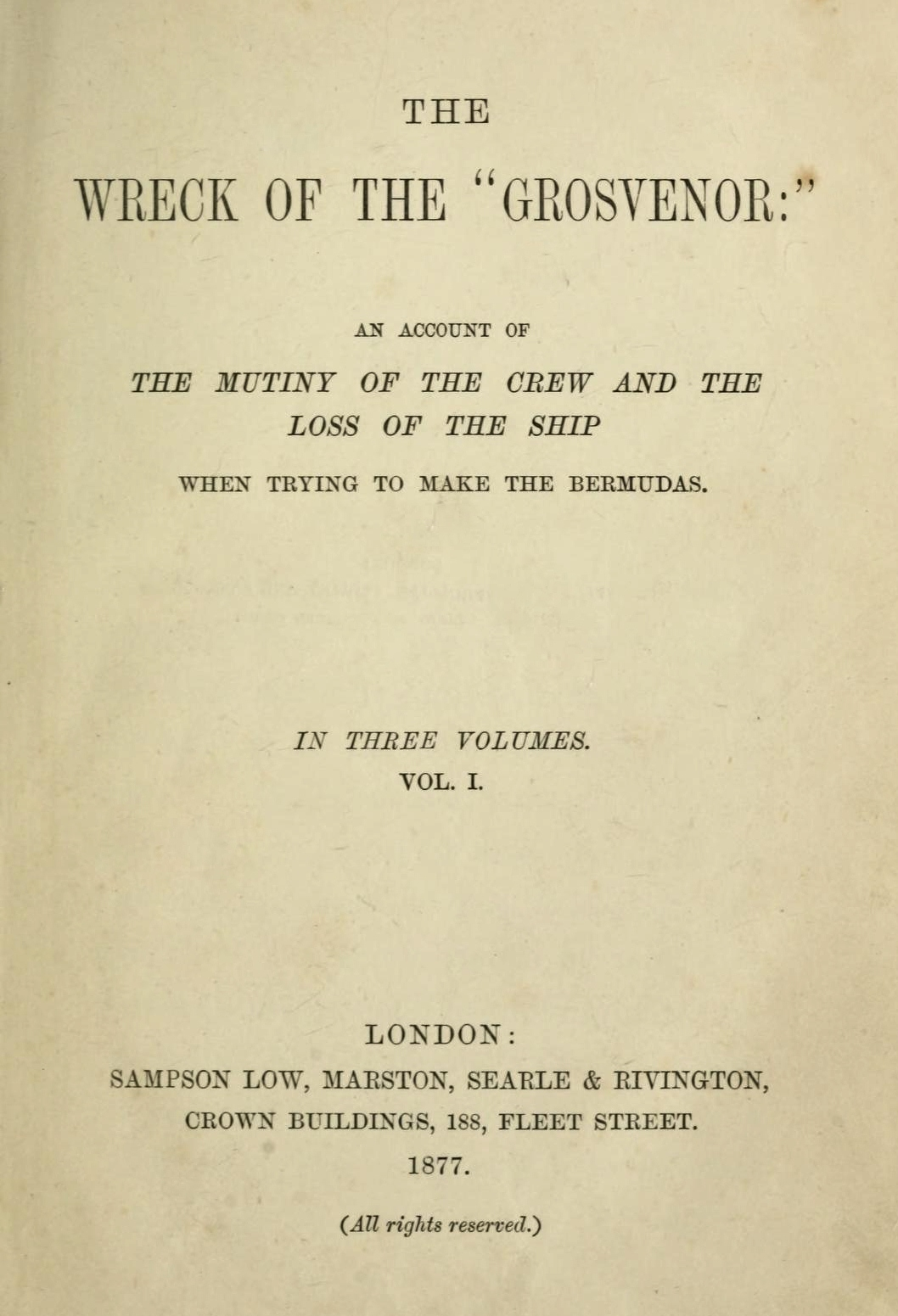 The Wreck of the Grosvenor 1st ed title pg